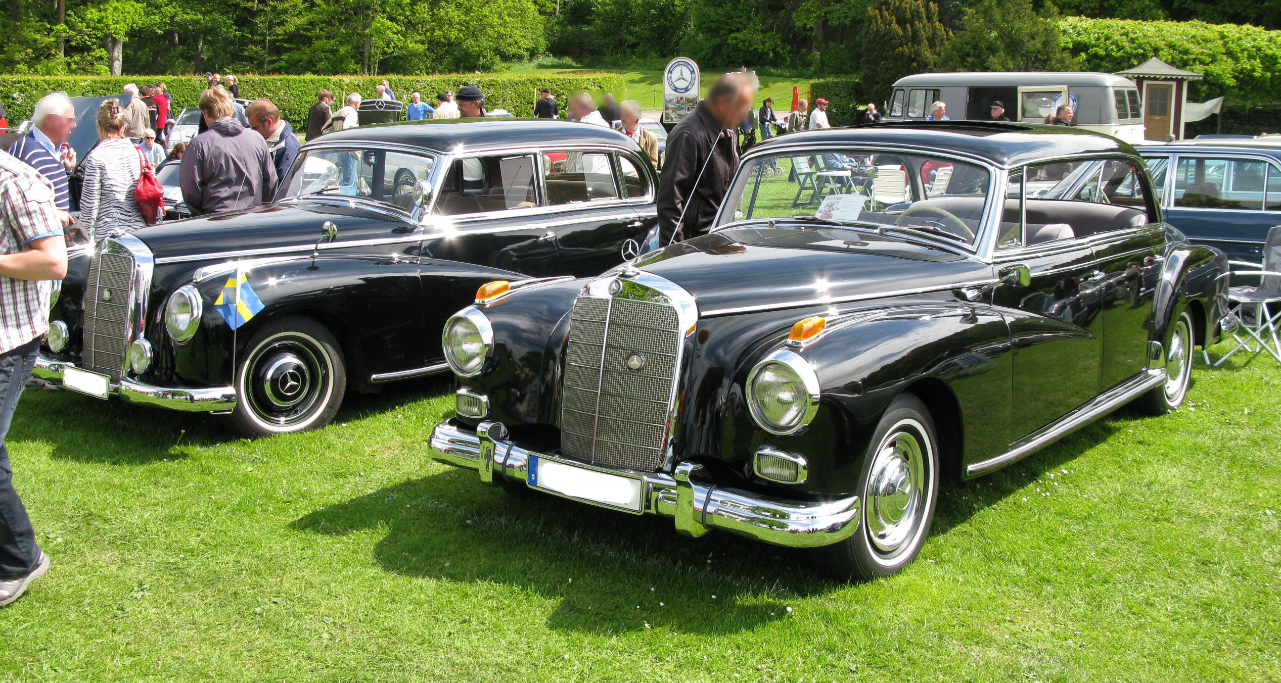 To the left: 1952 Mercedes-Benz W186 300a; to the right: 1962 Mercedes-Benz W189 300d. Event: Tjolöholm Classic Motor 2009